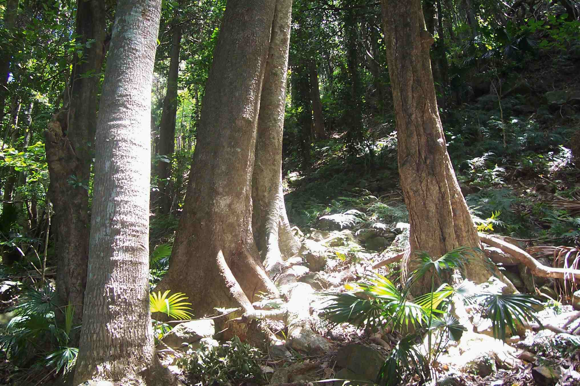 sub tropical rainforest: Mount Keira, Australia; trees include Australian Red Cedar (2), Flame Tree (1) and Maidens Blush (2)